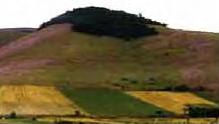 Harilaq Hill